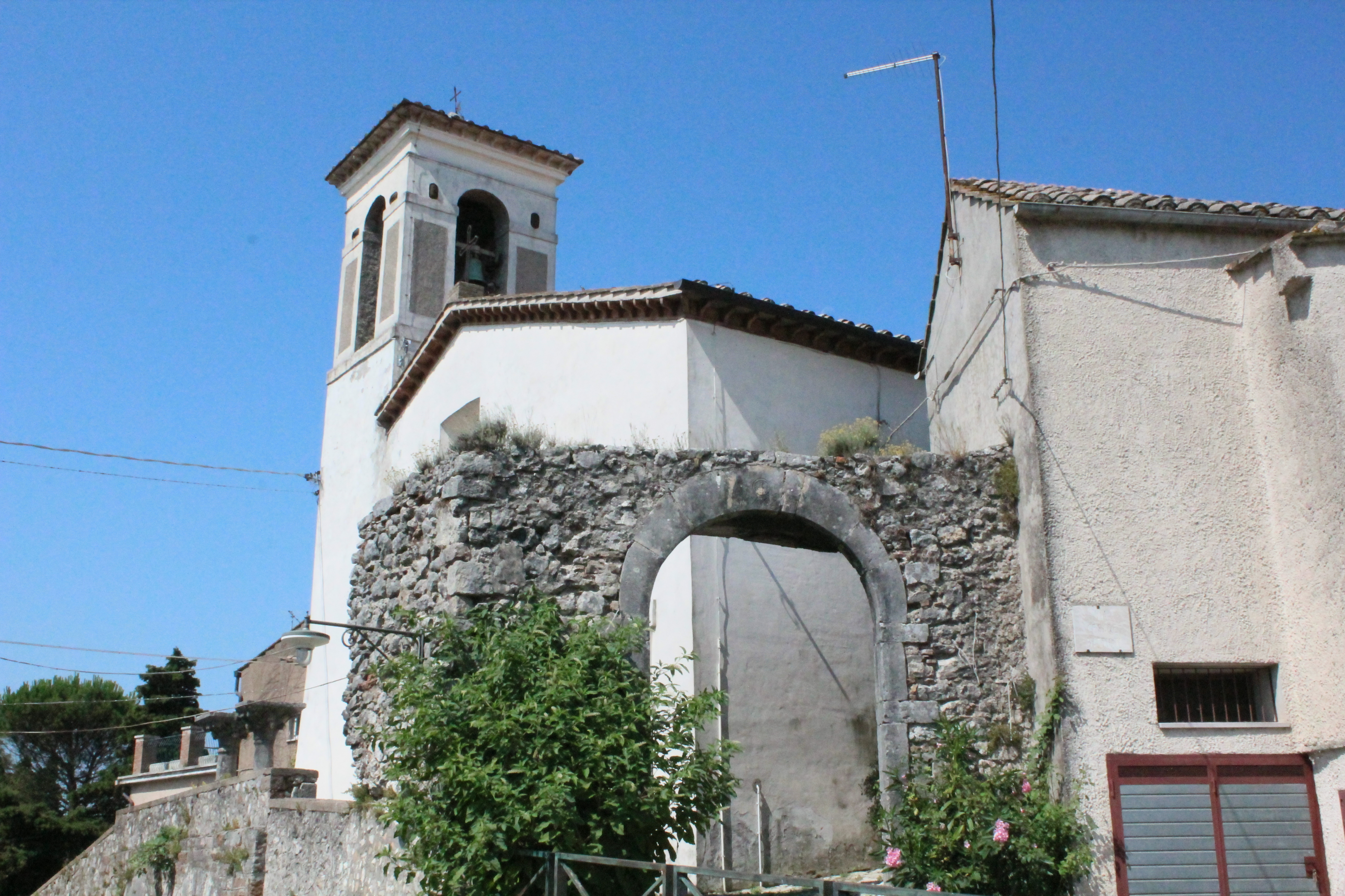 Church San Gregorio in Foce, hamlet of Amelia, Province of Terni, Umbria, Italy